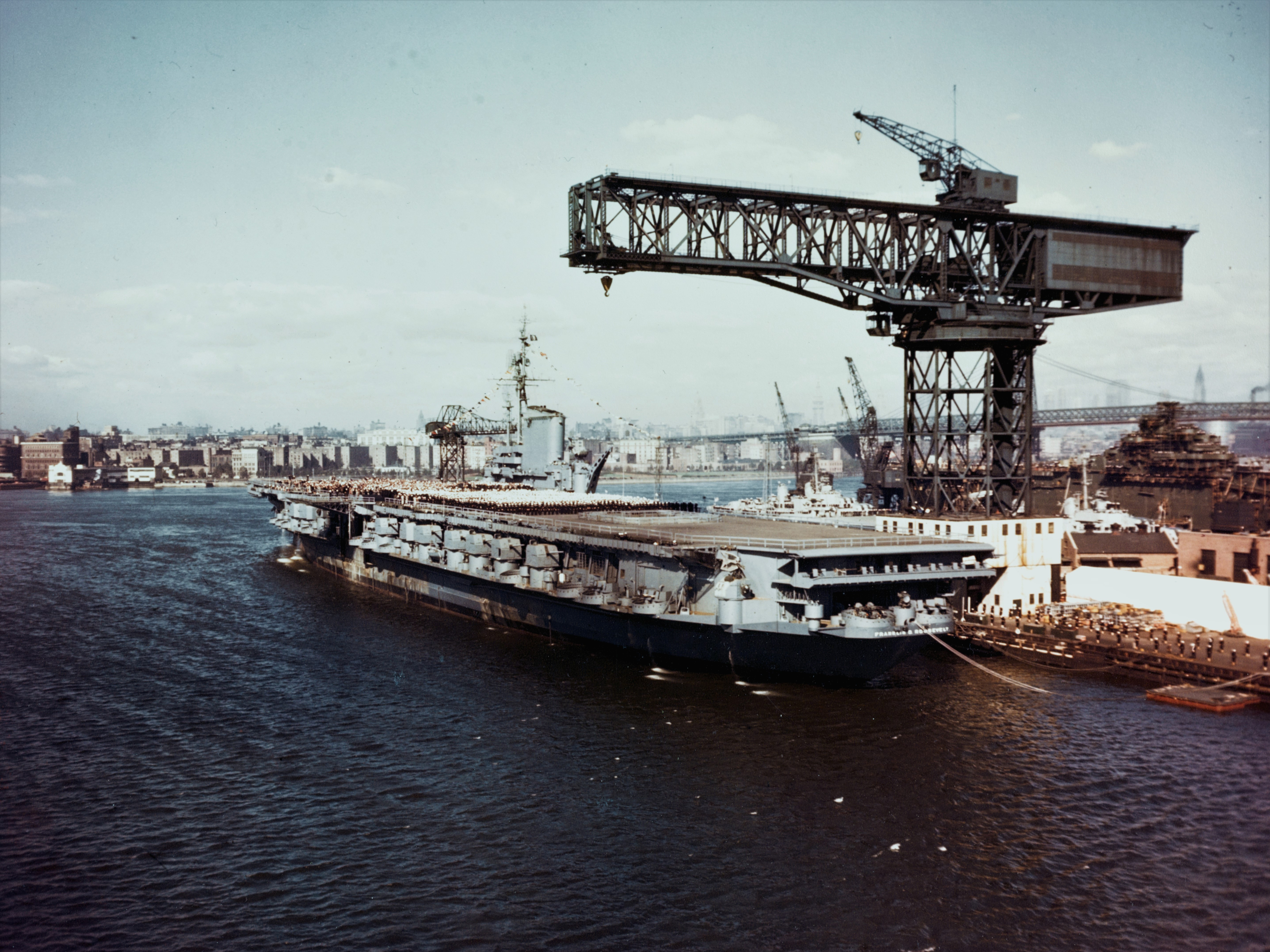 Commissioning of the U.S. Navy aircraft carrier USS Franklin D. Roosevelt (CVB-42) at the Brooklyn Navy Yard, New York City (USA), on Navy Day, 27 October 1945. Crew and visitors crowd her flight deck, as the crews of other ships present man their ship's rails in her honour. The aircraft carrier on the opposite side of pier is USS Franklin (CV-13), under repair for battle damage received earlier in the year.